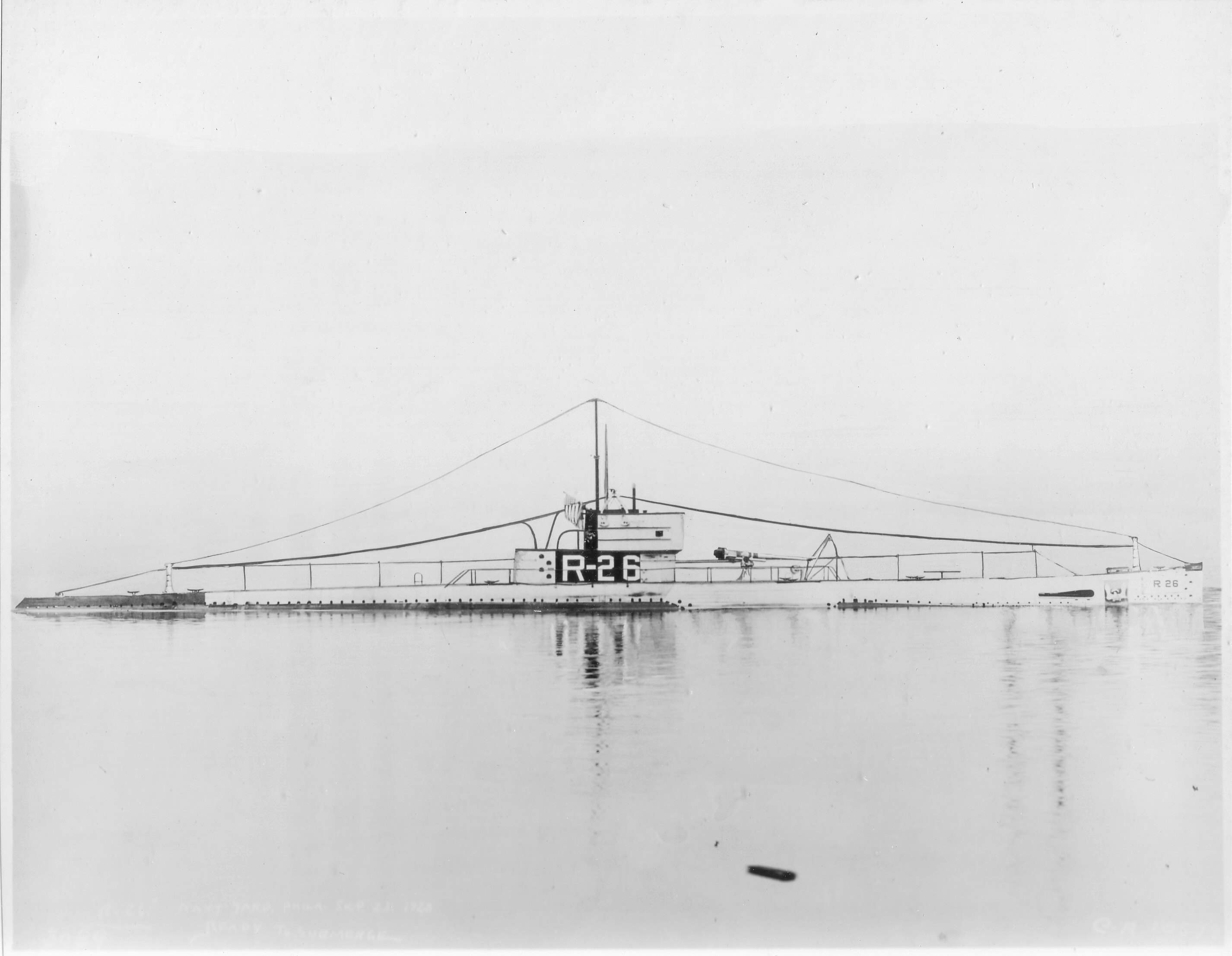 United States Navy submarine preparing to submerge at the Philadelphia Navy Yard at Philadelphia, Pennsylvania.